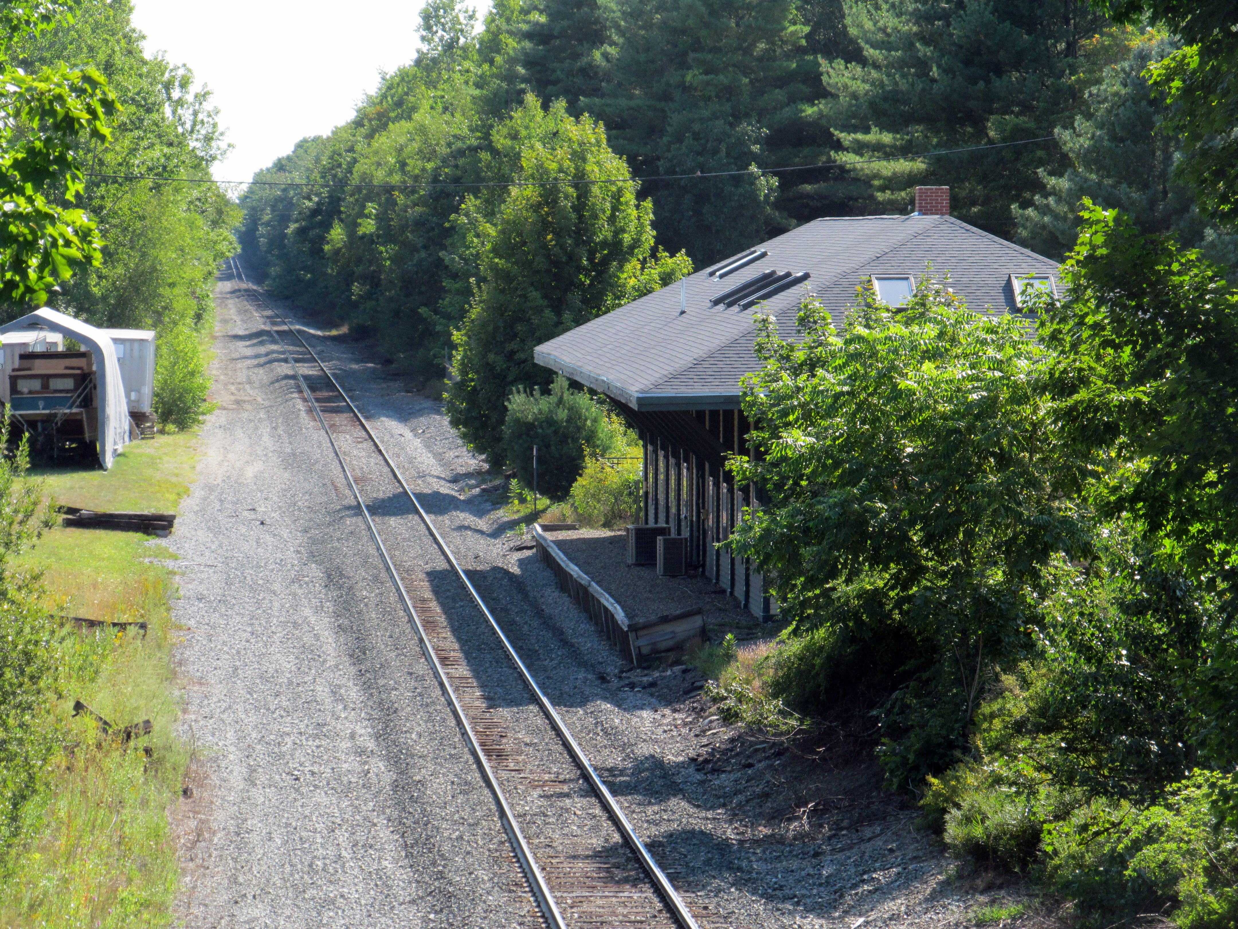 Kennebunk station from the Route 9A bridge in September 2016